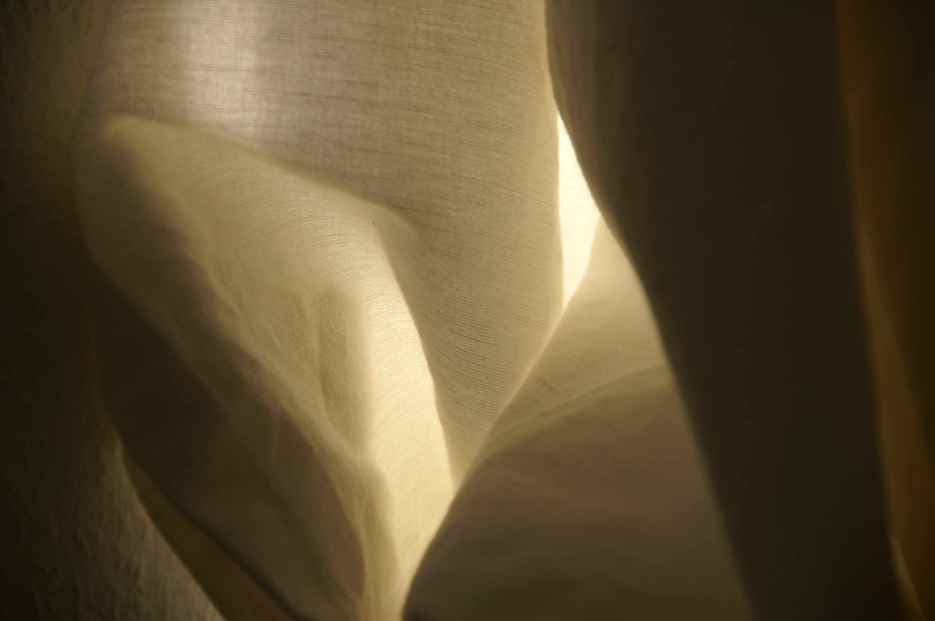 white cutain in warm light